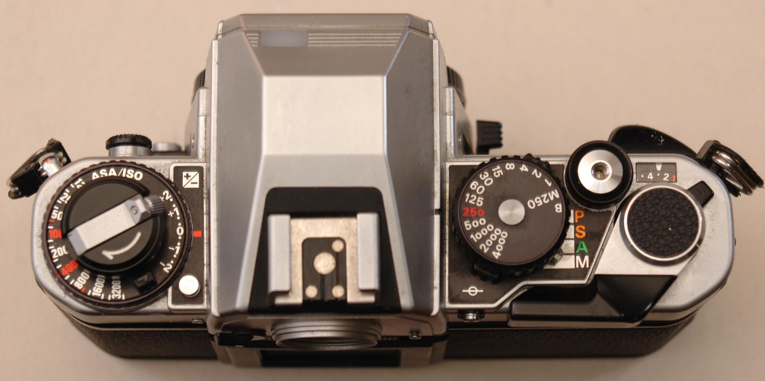 Top view of a Nikon FA 35mm SLR camera, showing most of the controls.